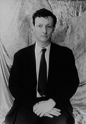 Portrait of Jean Louis Barrault in 1952